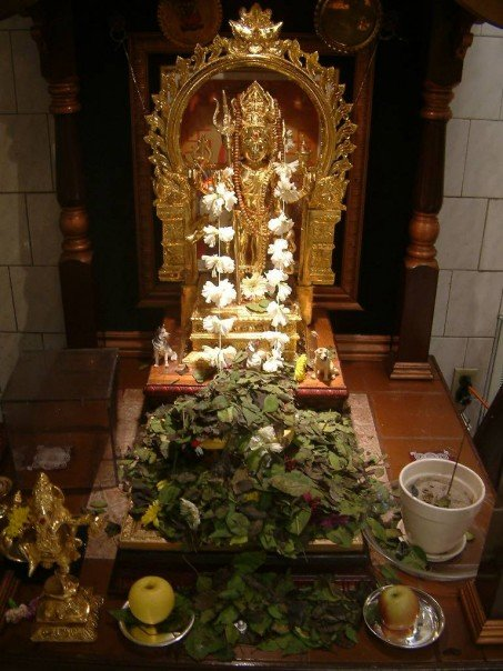 Bhairava